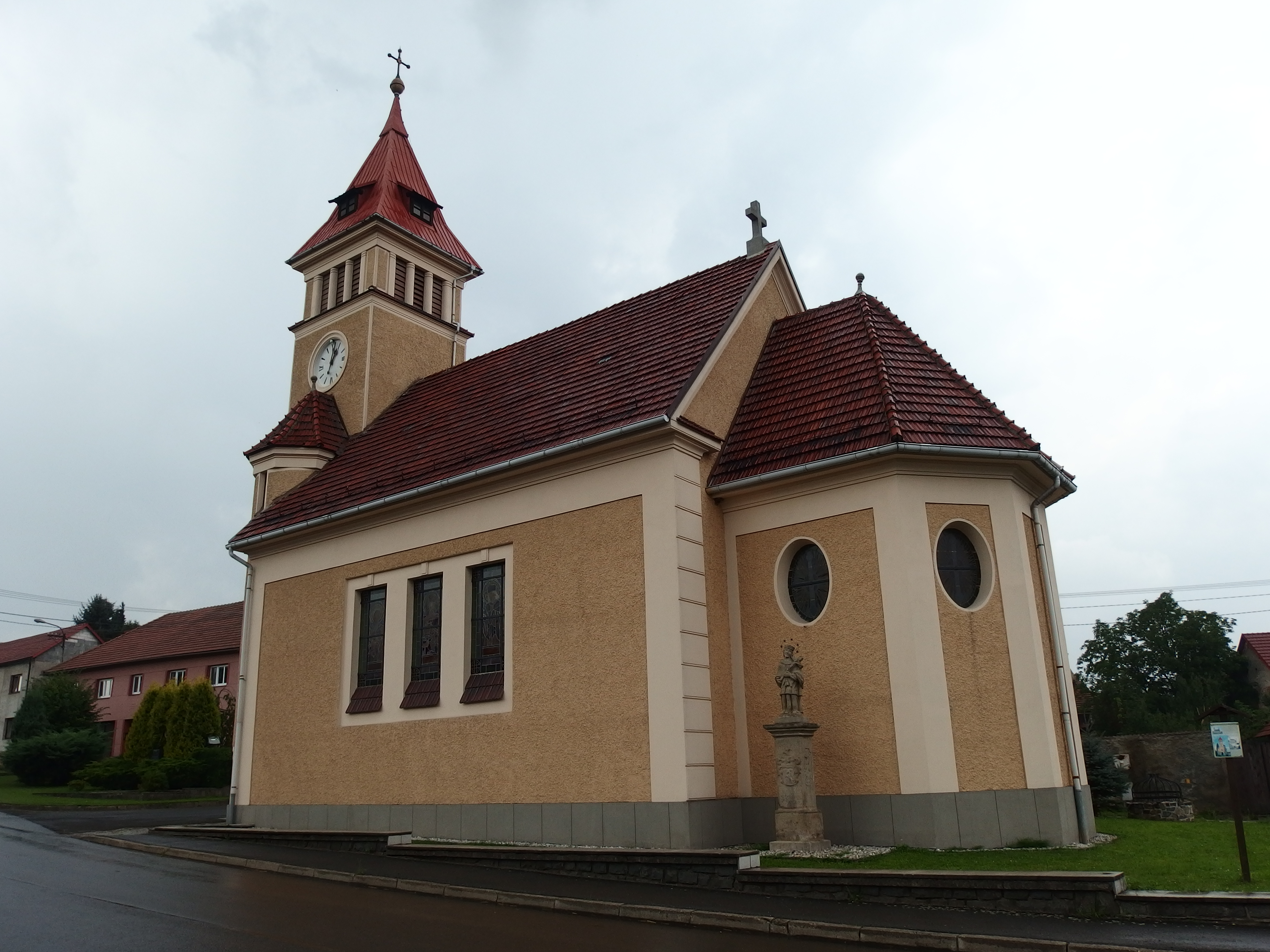 Malhotice, Přerov District, Czech Republic. Church of the Immaculate Conception of the Virgin Mary.